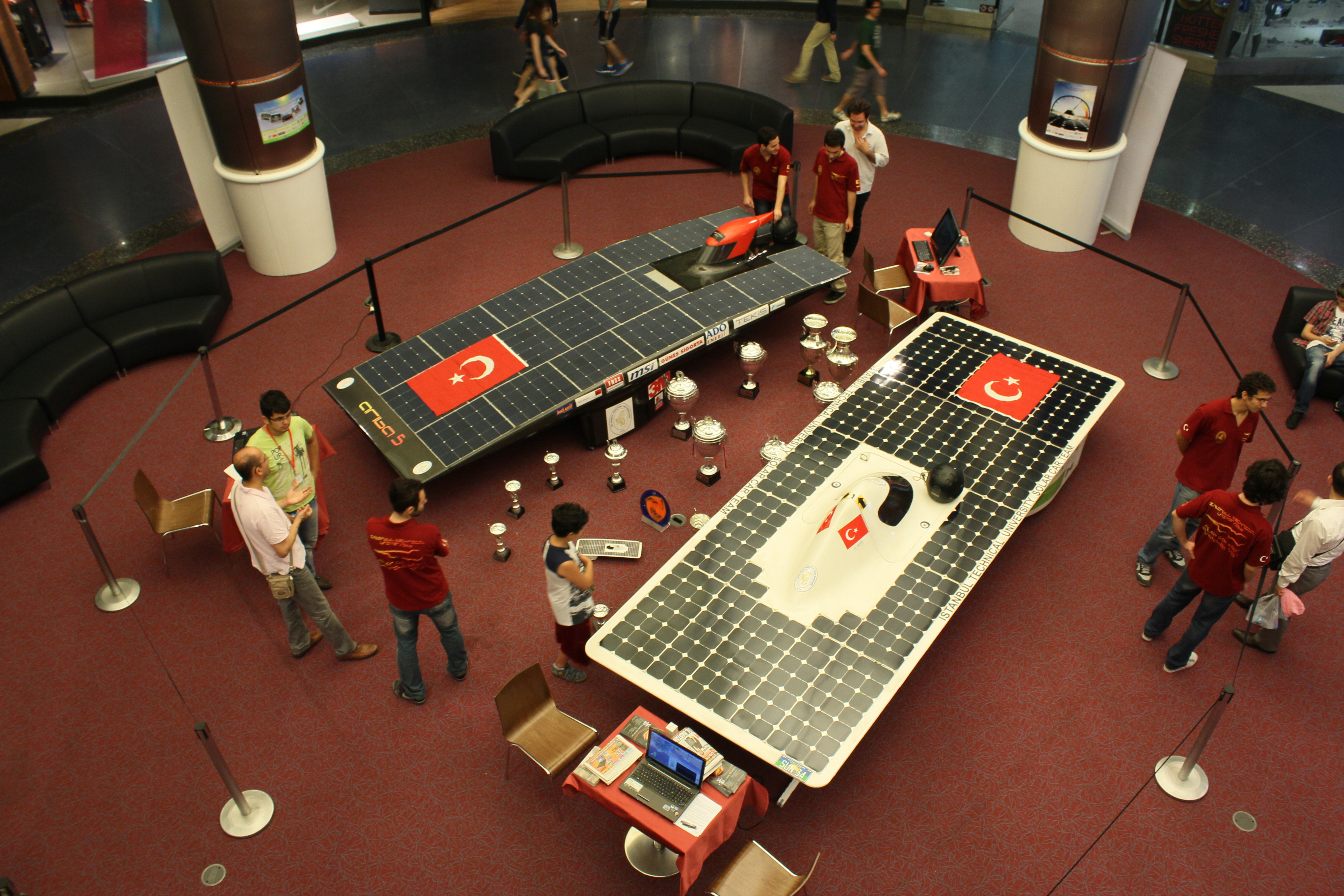 istinye park